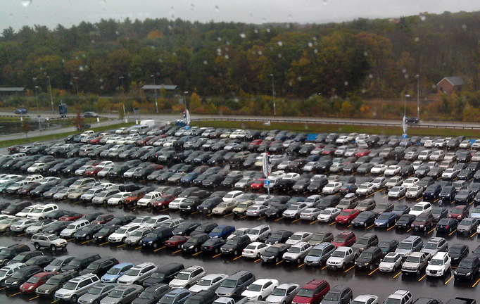 Packed parking lot at Gillete Stadium, with the MBTA Commuter Rail stop in the background